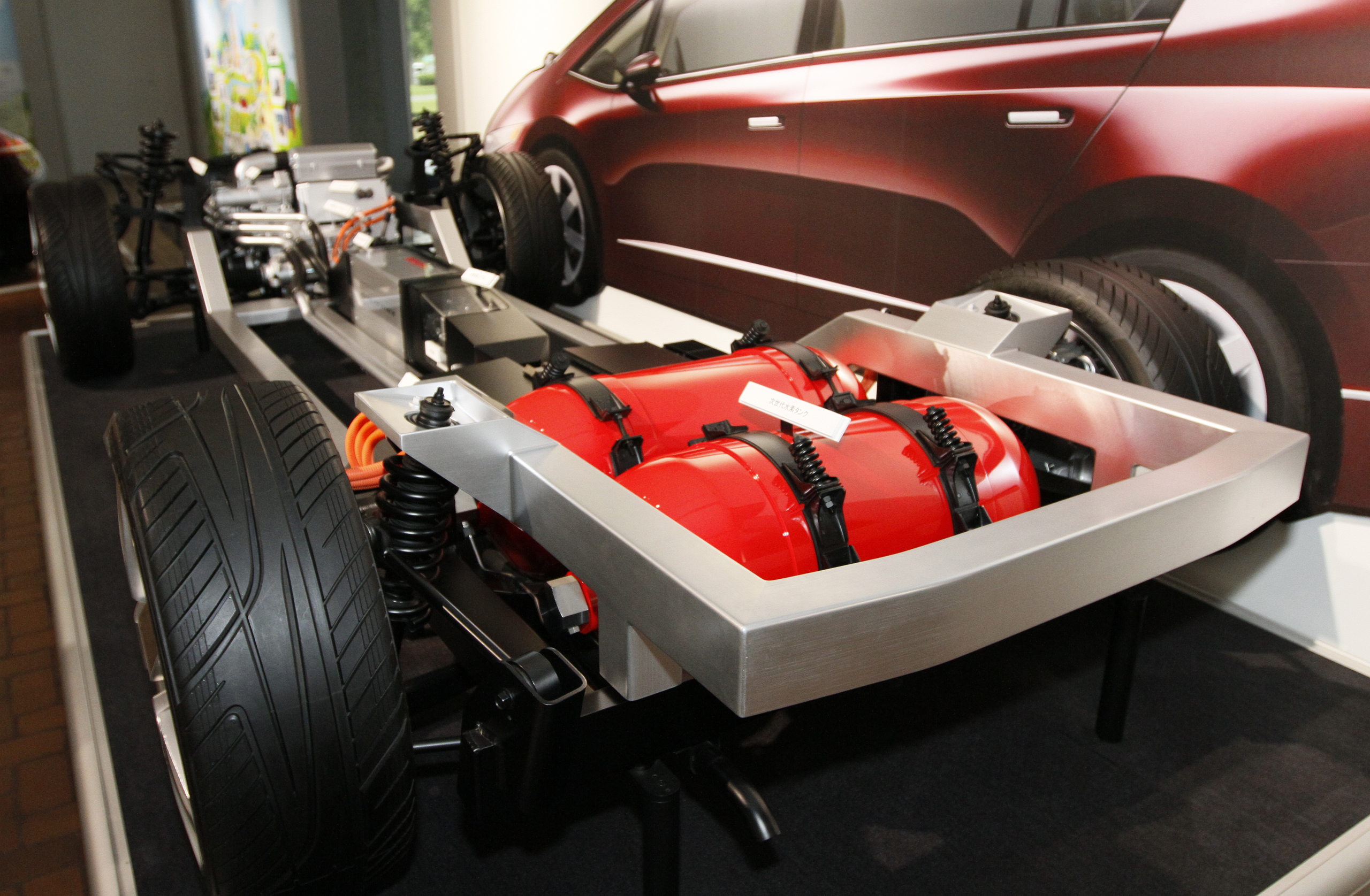 Honda FCX prototype; the V Flow F.C. Platform and the hydrogen tanks.